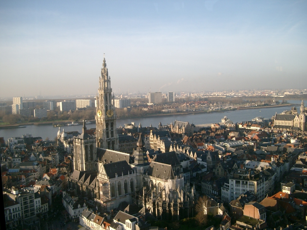 Antwerp's cathedral, and urban smog